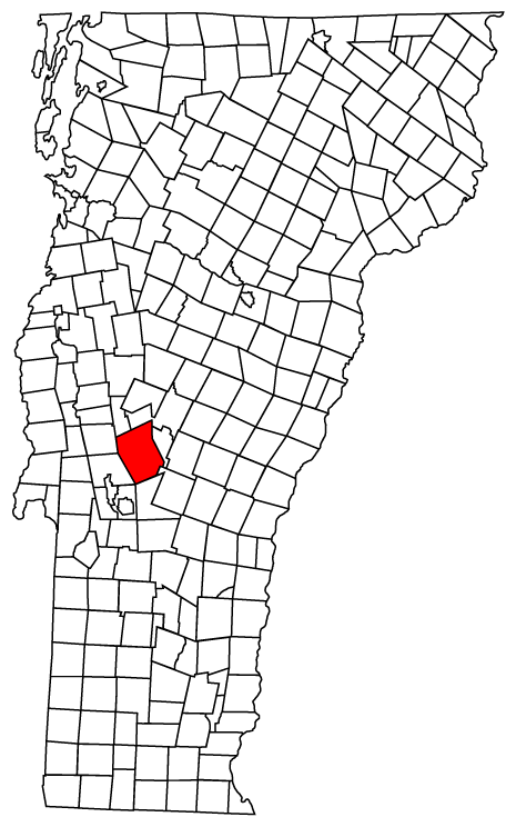 Description: Map of Vermont towns with Chittenden highlighted Source: Map created by Jared C. Benedict on 26 March 2004. Copyright: © Jared C. Benedict.